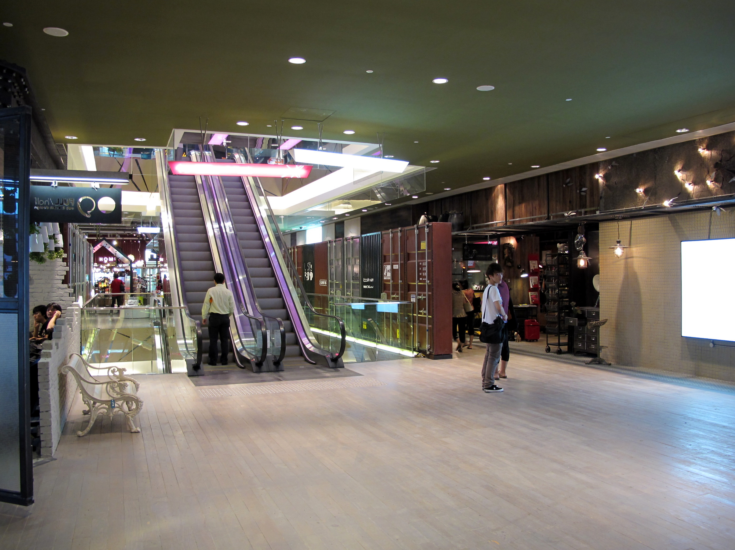 The ONE Level 8